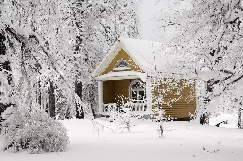 Vihula Manor Country Club & Spa is a hidden treasure on the Northern coast of Estonia, set amidst the wildlife-rich Lahemaa National Park and near the Baltic Sea.